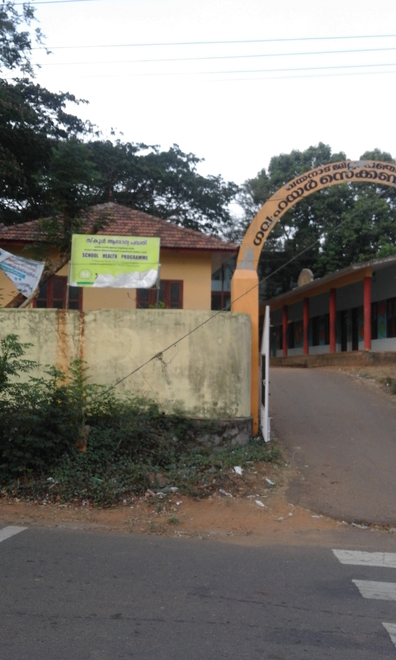 Mananthavady-Pulpally Road, Wayanad District, Kerala province, India.